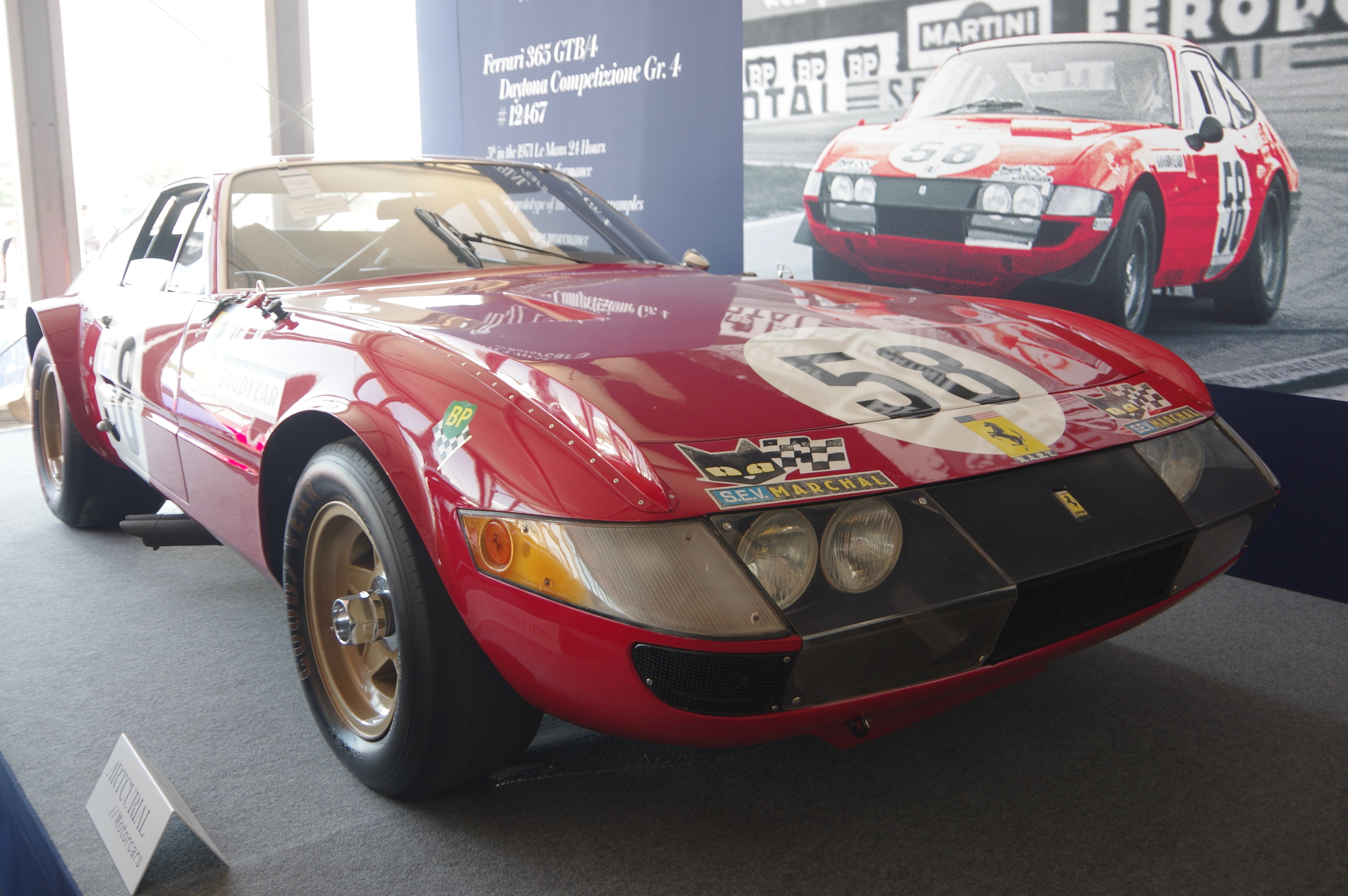 1969 Ferrari 365 GTB/4 Daytona Competizione Group 4 s/n 12467. Auction Estimate: 6,500,000€ to 7,500,000€. Sold for 12,483,432 €.{ Part of the reason for the price is that this car ran at Le Mans 24 hours 1971; N.A.R.T. finishing 5th overall and winning the "Index of Thermal Efficiency"